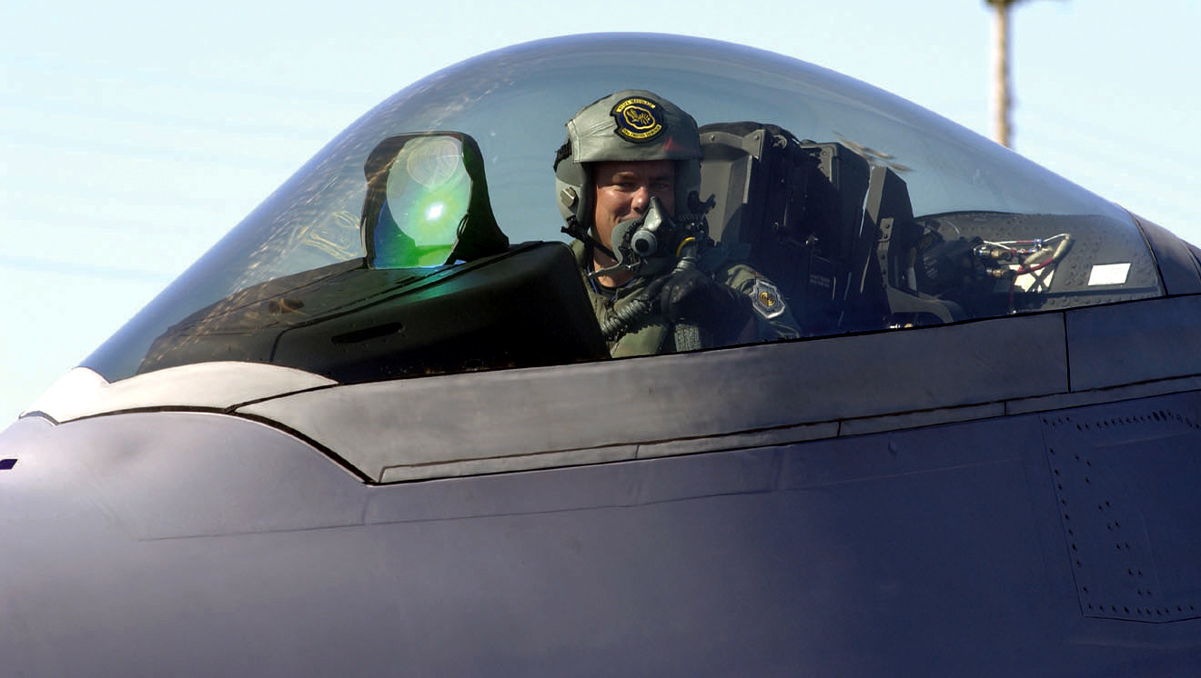 Maj. Michael Hoepfner completes his checkout flight in Raptor No. 18 recently as the first local F/A-22 fighter pilot to finish his training here.